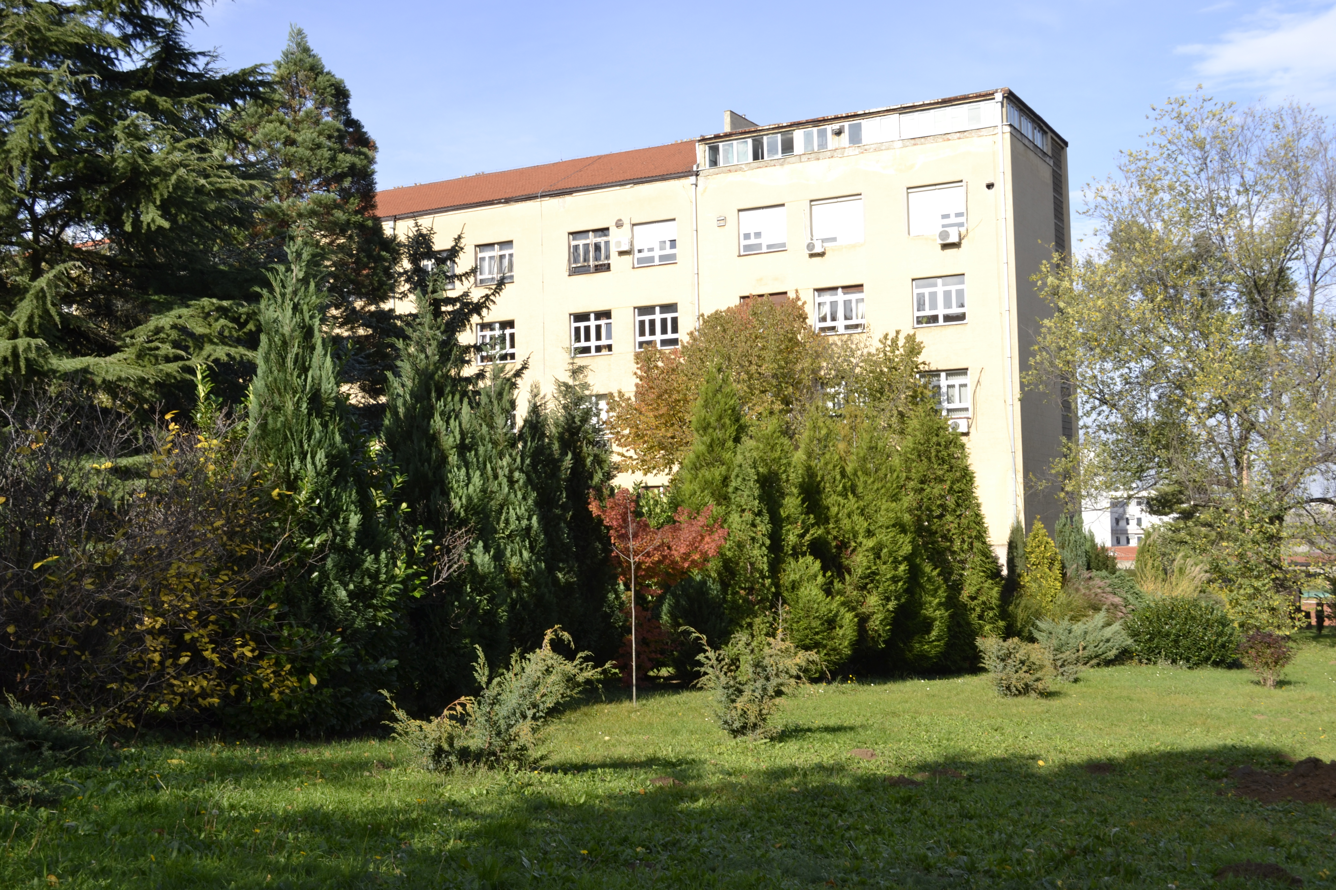 Collection of conifers in the arboretum of Faculty of Forestry in Belgrade.